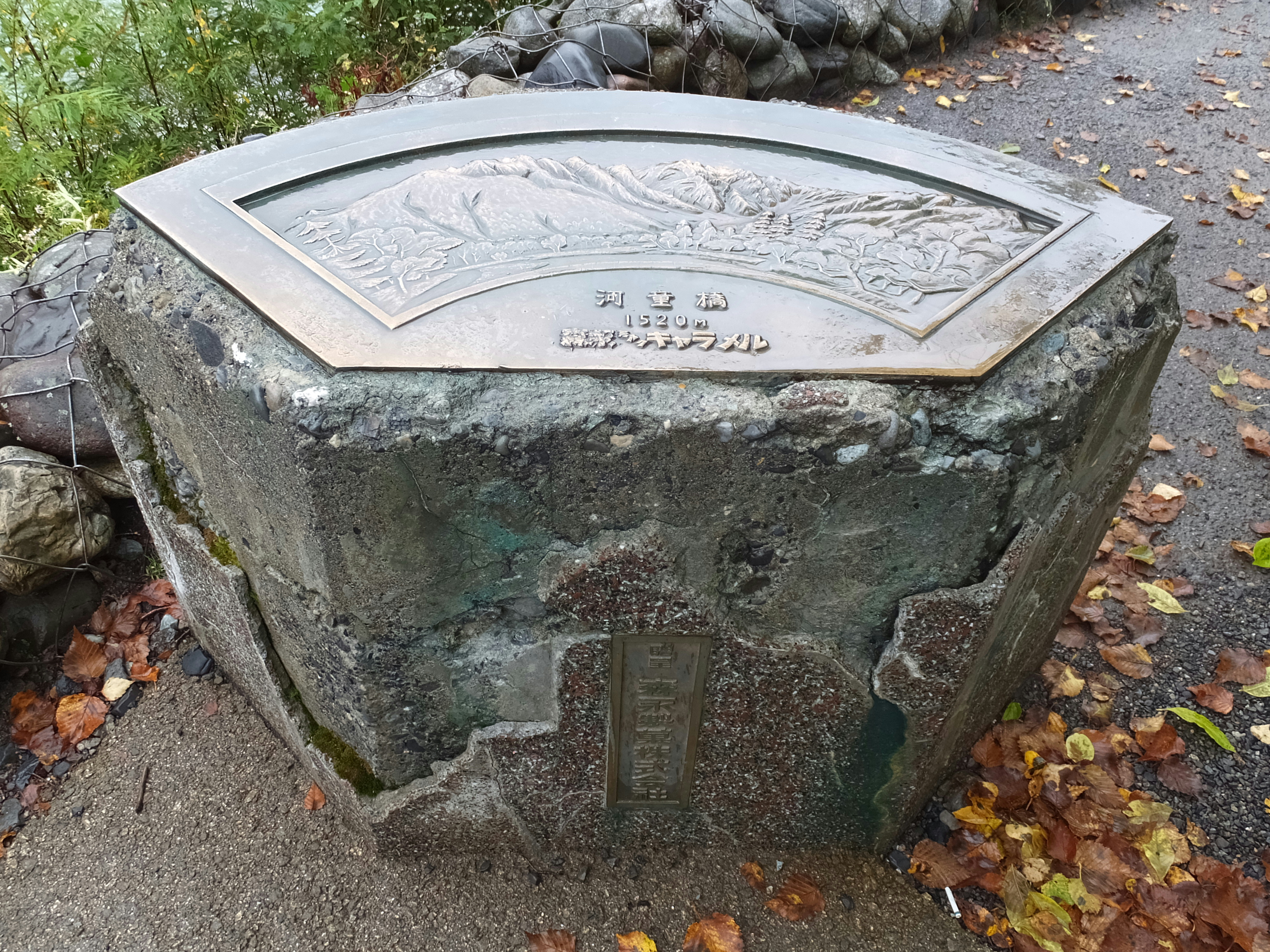 Kappa Bridge Monument at Kamikōchi, Morinaga & Co.,Ltd. Gifts